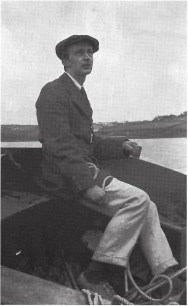 David Pinsent on a boat.